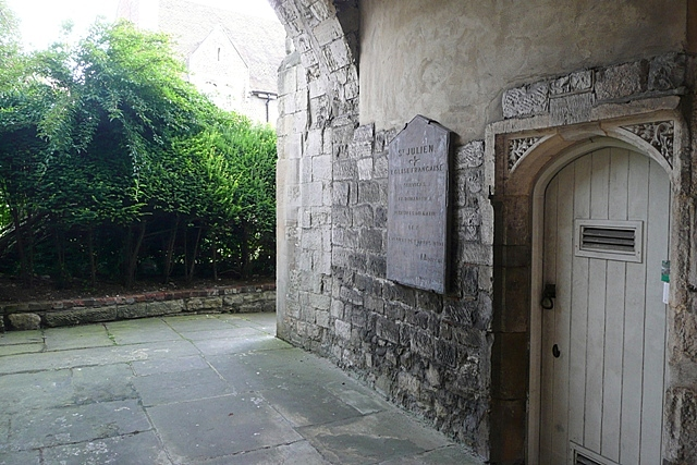 St. Julien A French Protestant church in Southampton, used by Hugenot refugees in the 16th and 17th centuries.